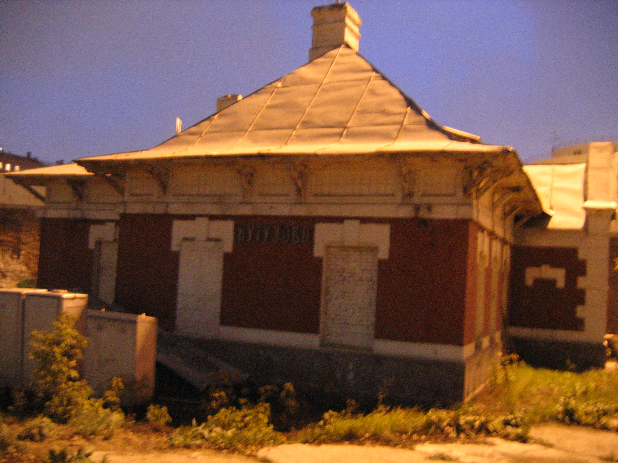 Kutuzovo railway station in Moscow, Russia